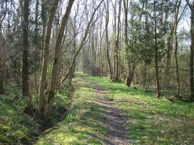 Footpath Footpath at western edge of Potton Woods